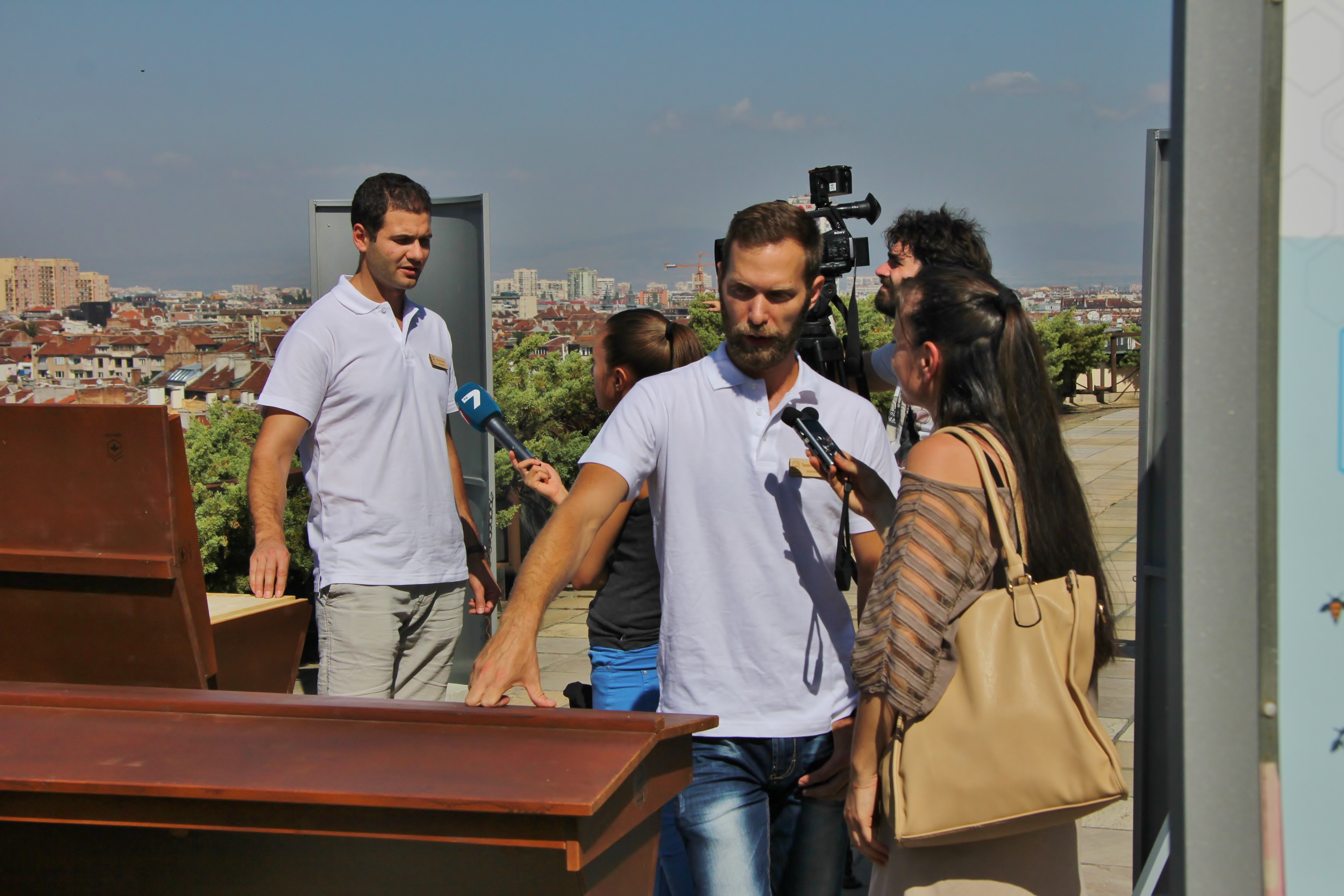 urban bees